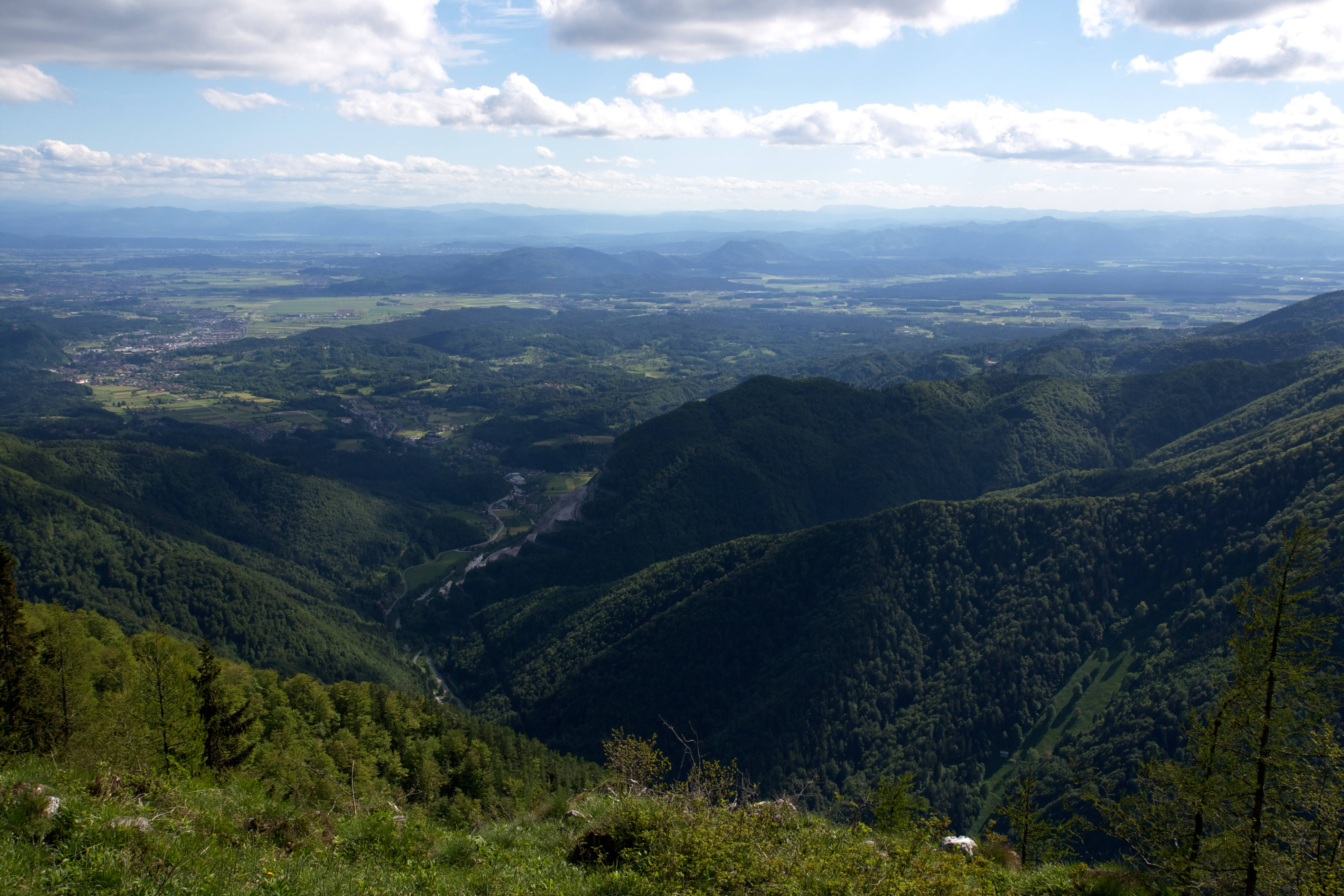 Looking south from Velika Planina